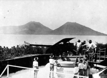 AWM caption : "RABAUL, NEW GUINEA. C. 1918. A SIX INCH ARTILLERY PIECE MOUNTED AT FORT RALUANA COMMANDING THE ENTRANCE TO BLANCHE BAY." Comment : This shows a BL 6 inch gun Mk V on Vavasseur recoil slide Mk I.